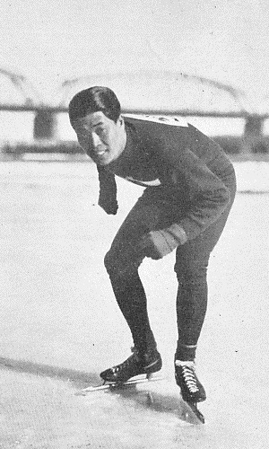 Kim Jong-yeon (Speedskater)